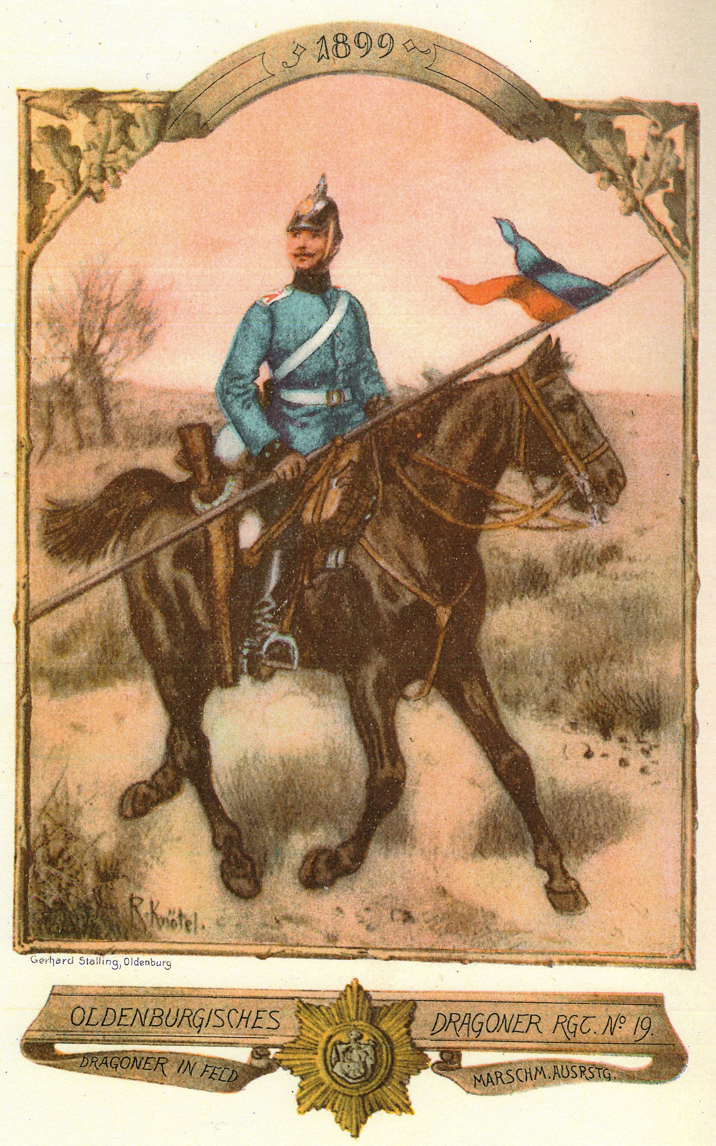 Dragoon the of the Oldenburgisches Dragoner-Regiment Nr. 19, 1899. The flag in the Oldenburg state colors blue-red. Scetch by Richard Knötel the older.